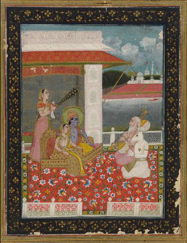 Sri Raga recital to Krishna-Radha, 19th century. Opaque watercolor and gold on paper.